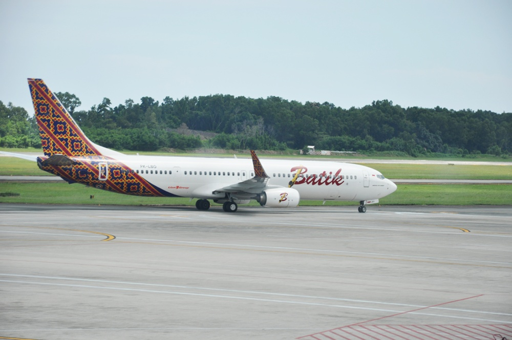 Batik Air landed from Jakarta-Soekarno-Hatta as ID6252